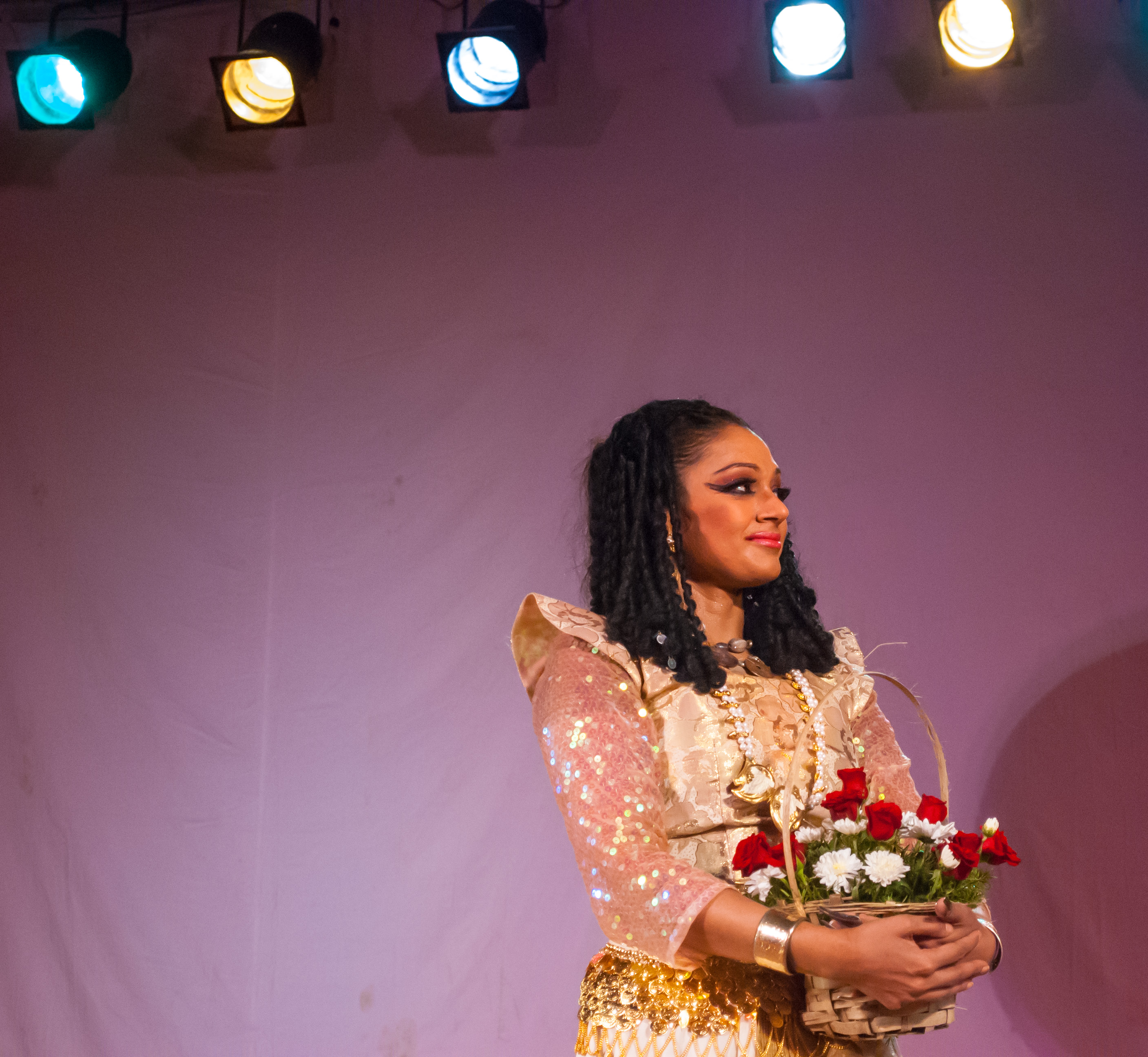 Dancer Shobana's Maya Ravan performance in Bangalore.